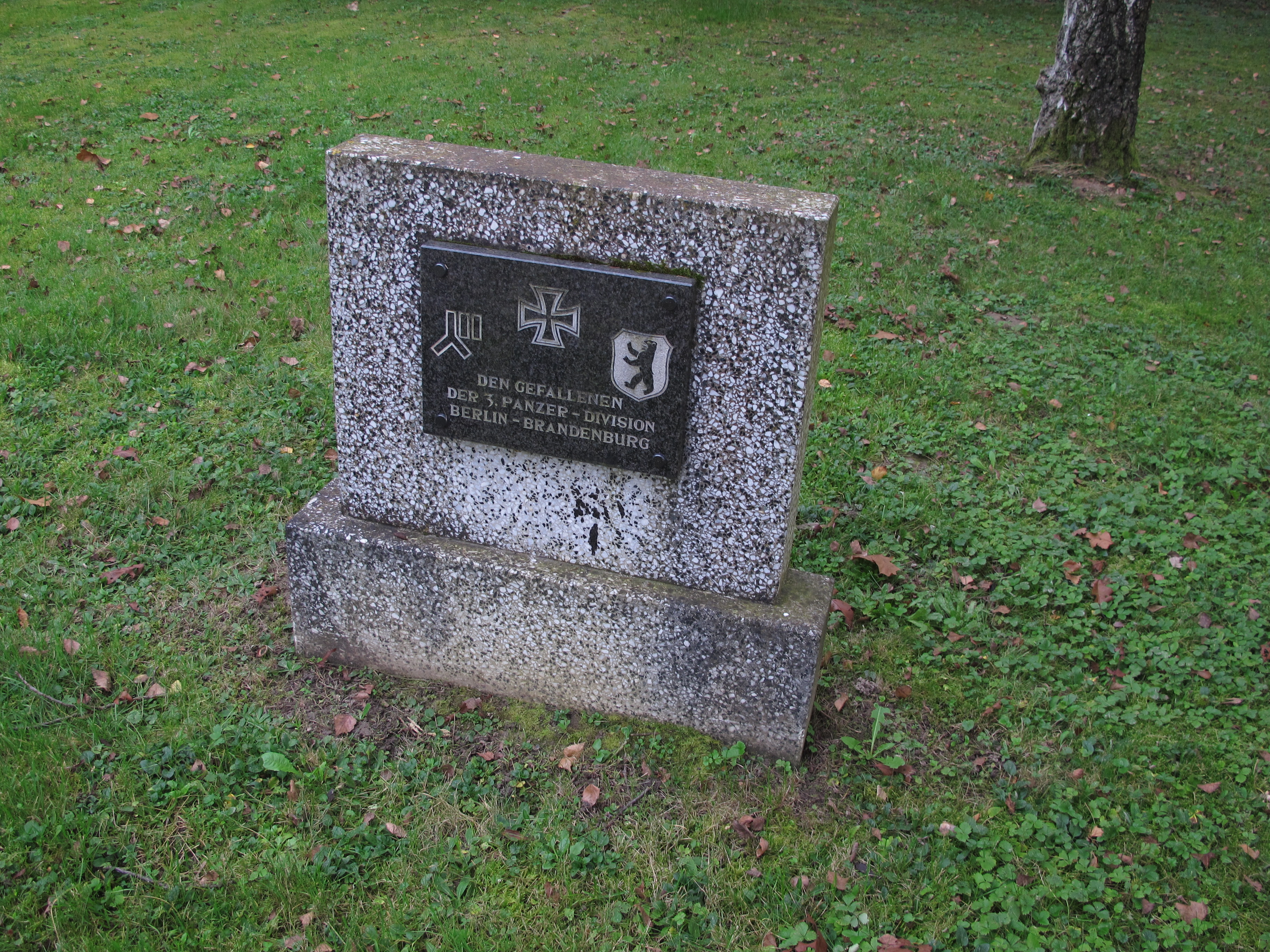 World War II